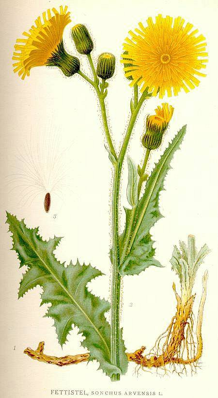 Original Description Fettistel, Sonchus arvensis L.